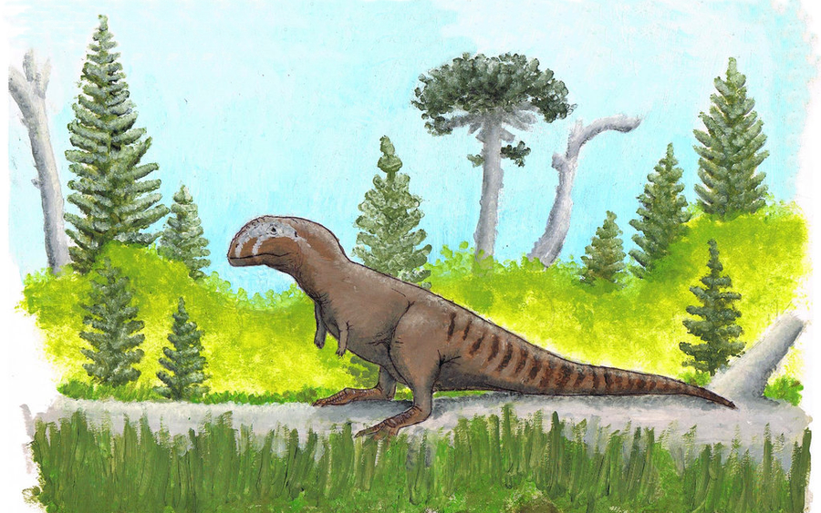 Highly speculative reconstruction of Betasuchus as an abelisaurid, based on related taxa.